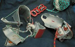 System of bungee jump ventral and foot clamp.